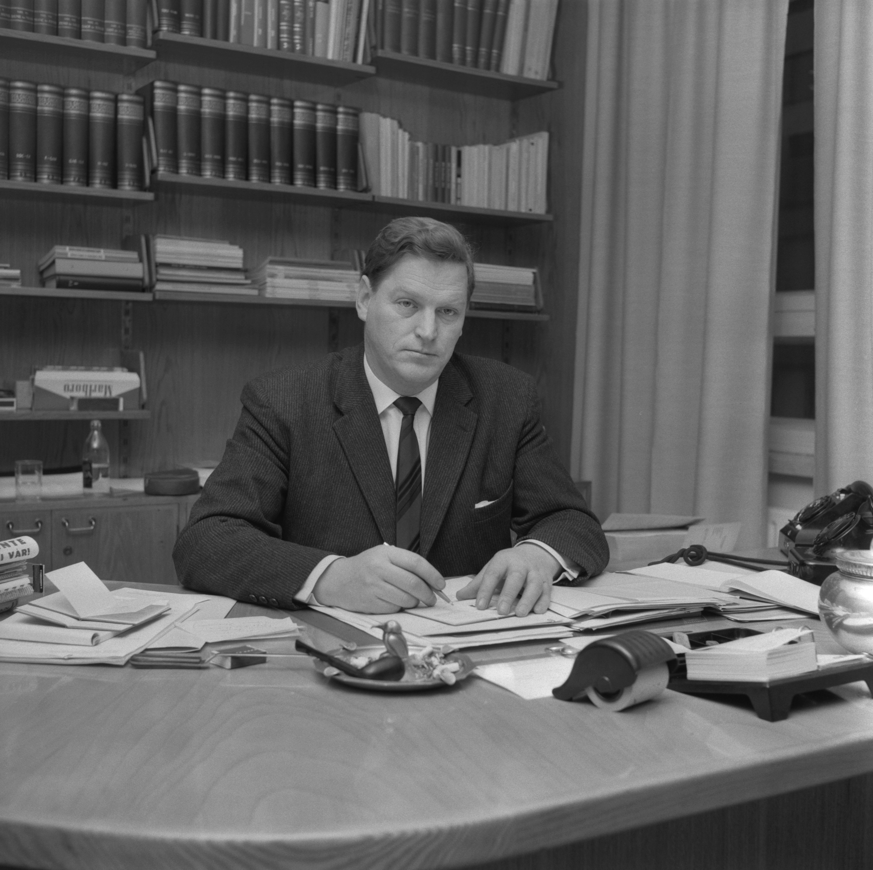 Eino S. Repo, the director-general of Finnish Broadcasting Company 1965–1969. Eino S. Repo, Yleisradion pääjohtaja 1965-1969. Photo: Ruth Träskman/Yle. Tiedätkö jotain tästä kuvasta? Jätä kommentti tai ota yhteyttä sähköpostitse: Tutustu Ylen arkistosisältöihin: Fler skatter från Yles arkiv: More about Yle, the Finnish Broadcasting Company